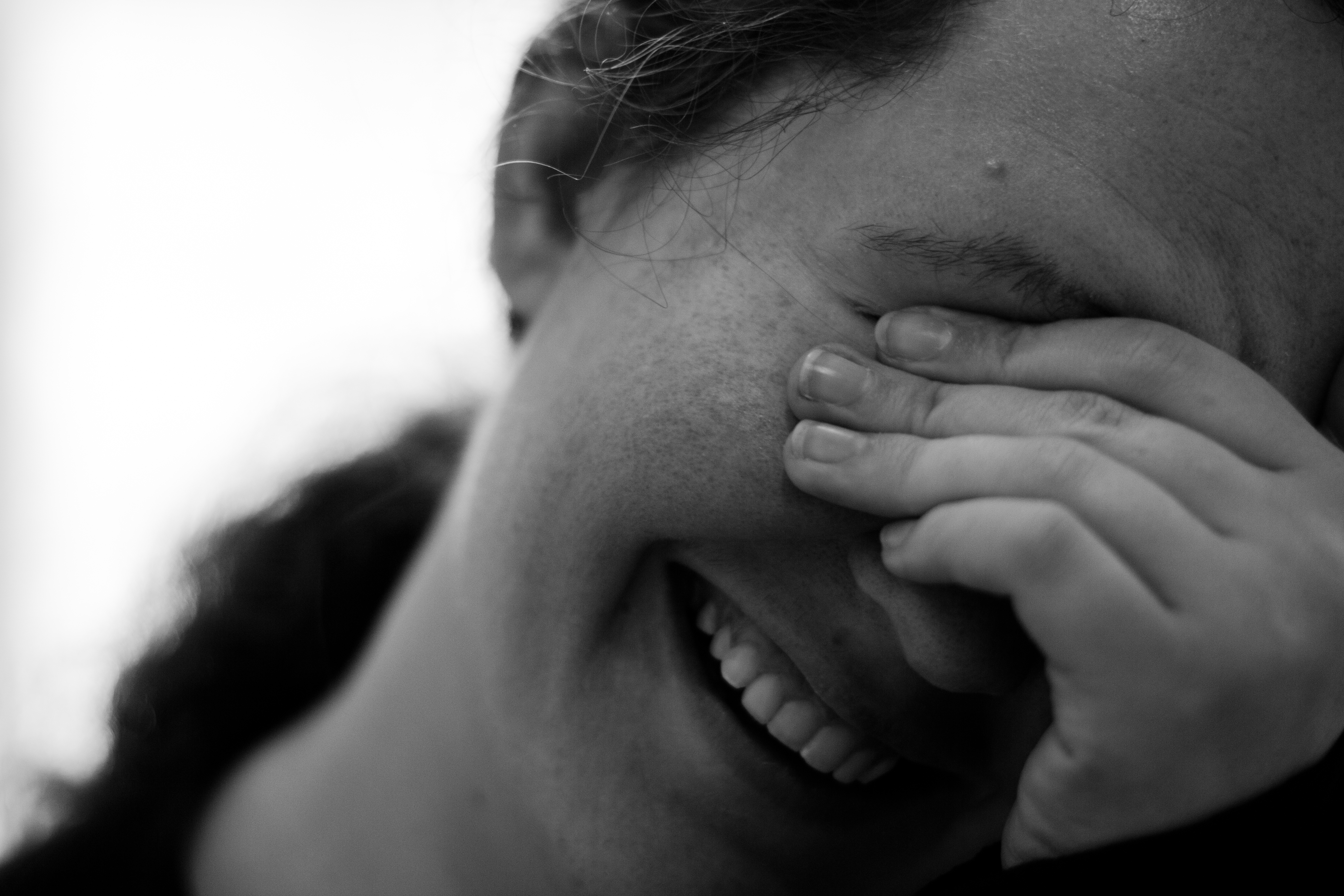 Embarrassed woman